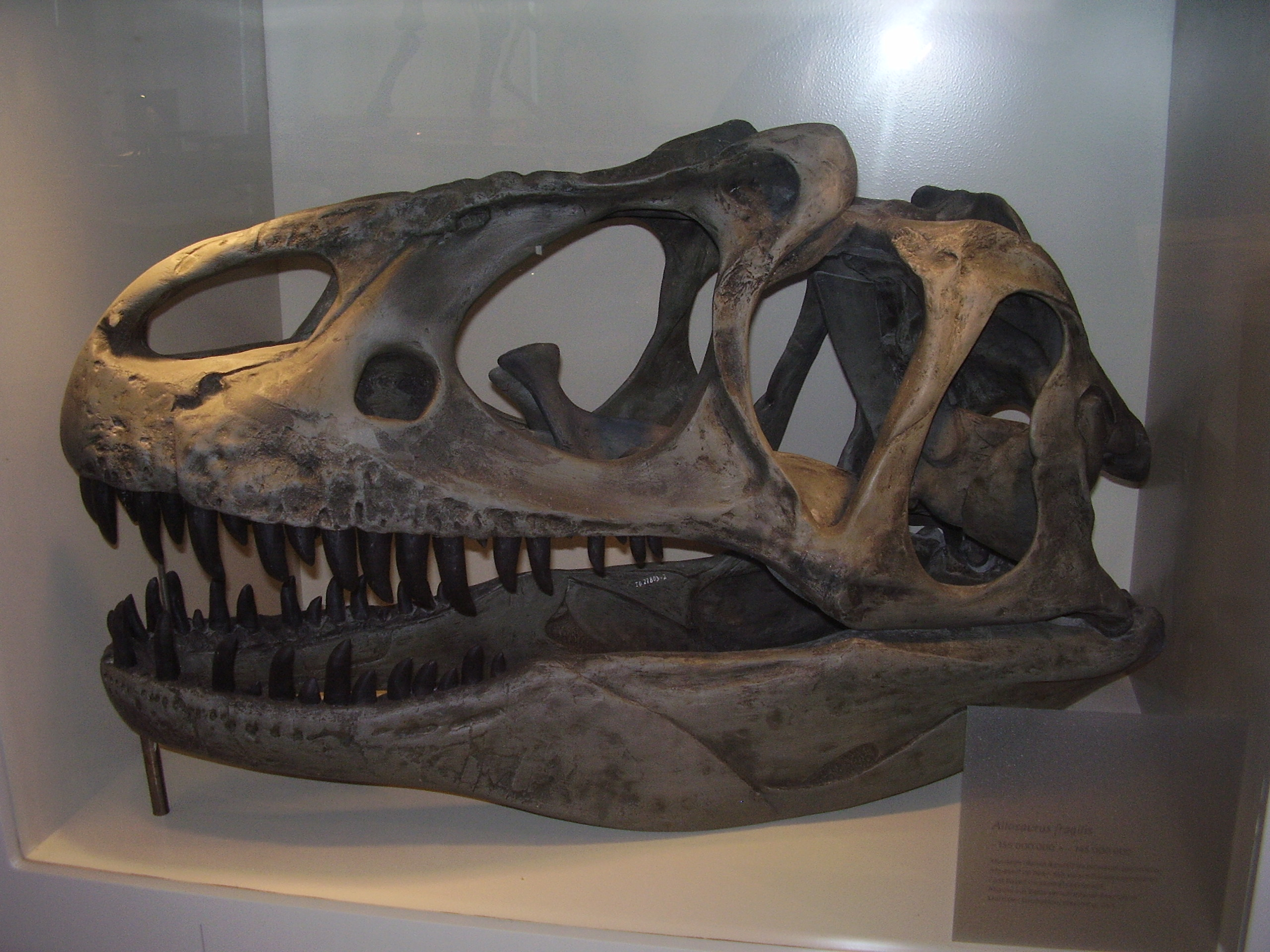 Allosaurus skull in Brussels Natural history museum.